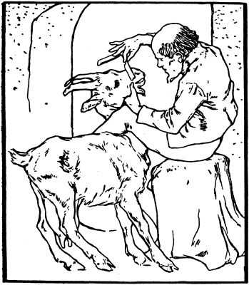 Illustration by Otto Ubbelohde to the fairy tale The Wishing-Table, the Gold-Ass, and the Cudgel in the Sack